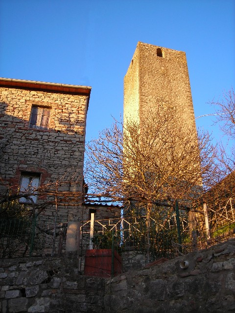 tower of Rotecastello, San Venanzo, Terni, Umbria, Italy